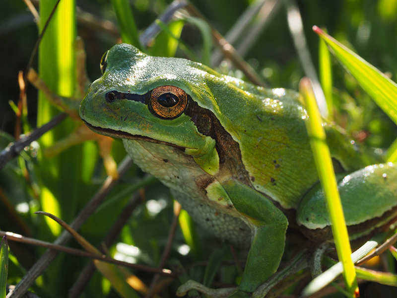 European tree frog, Hyla arborea